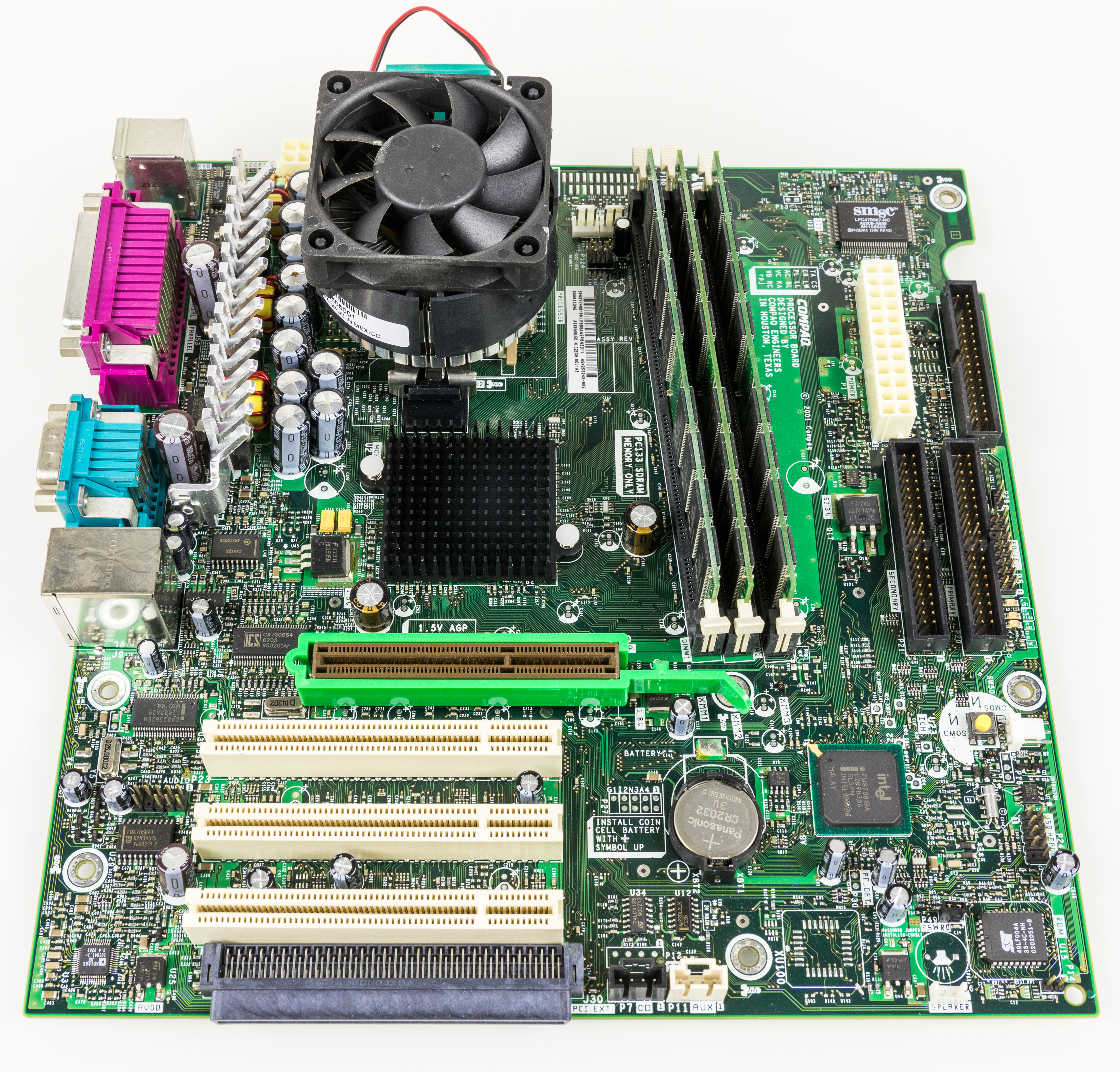 Compaq 011347-001 processor board (2001) with Pentium 4 (hidden by cooler fan), three DIMMs, one AGP and three PCI slots, from a Compaq Deskpro Evo